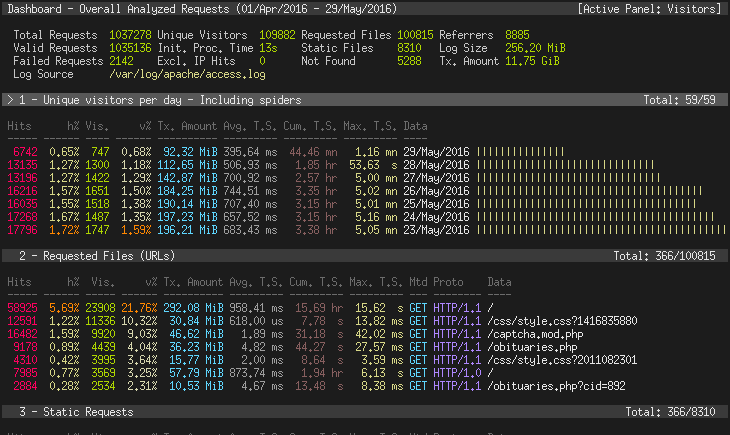 GoAccess screenshot